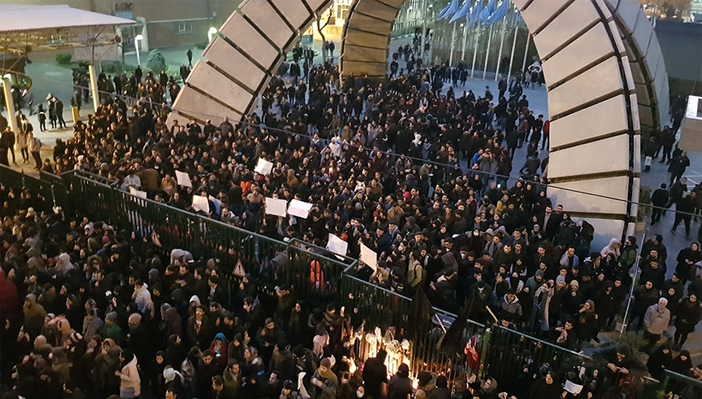 Protests against Ukraine International Airlines Flight 752 shot down by Sepah in front of Amir Kabir University